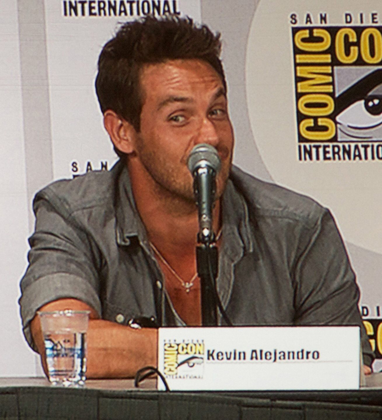 At the True Blood panel